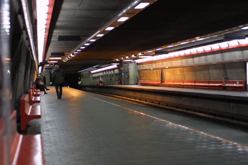 Vendôme Montreal Metro Station 中文（香港）: 蒙特利爾地鐵凡度美站